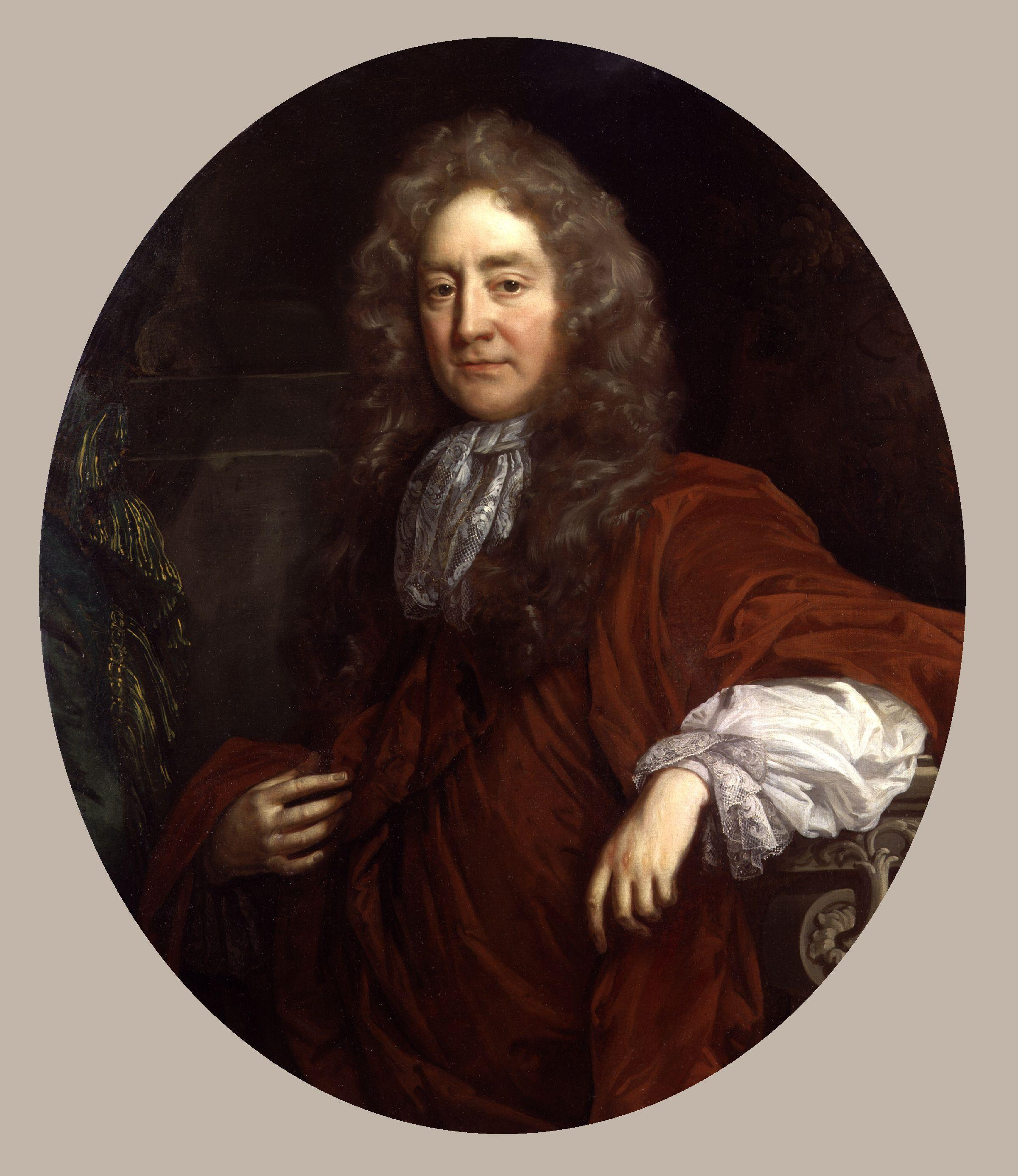 Sir Josiah Child, Bt, by John Riley (died 1691). All images in this batch have been confirmed as author died before 1939 according to the official death date listed by the NPG.